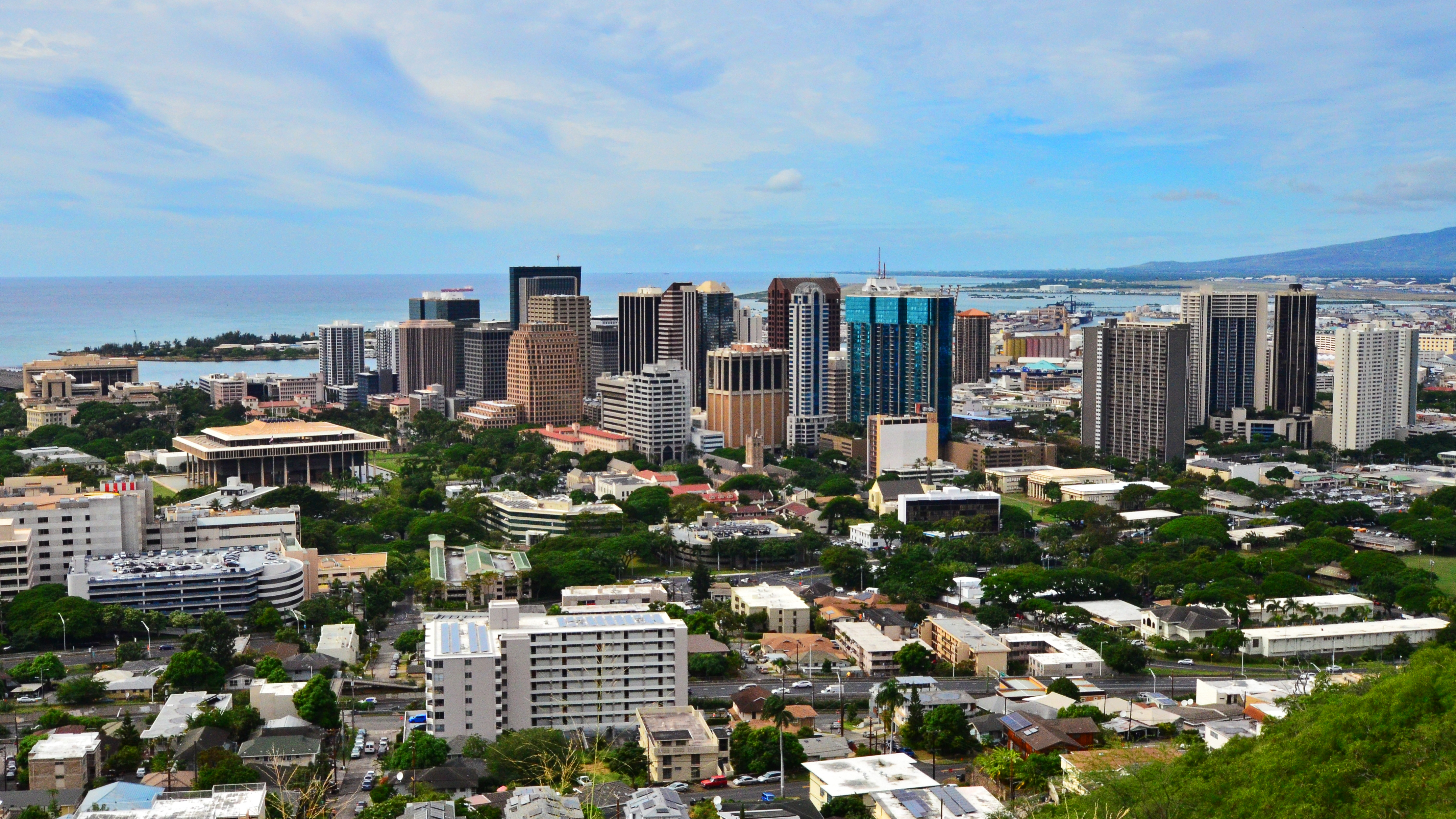 Downtown Honolulu from the Punchbowl Crater